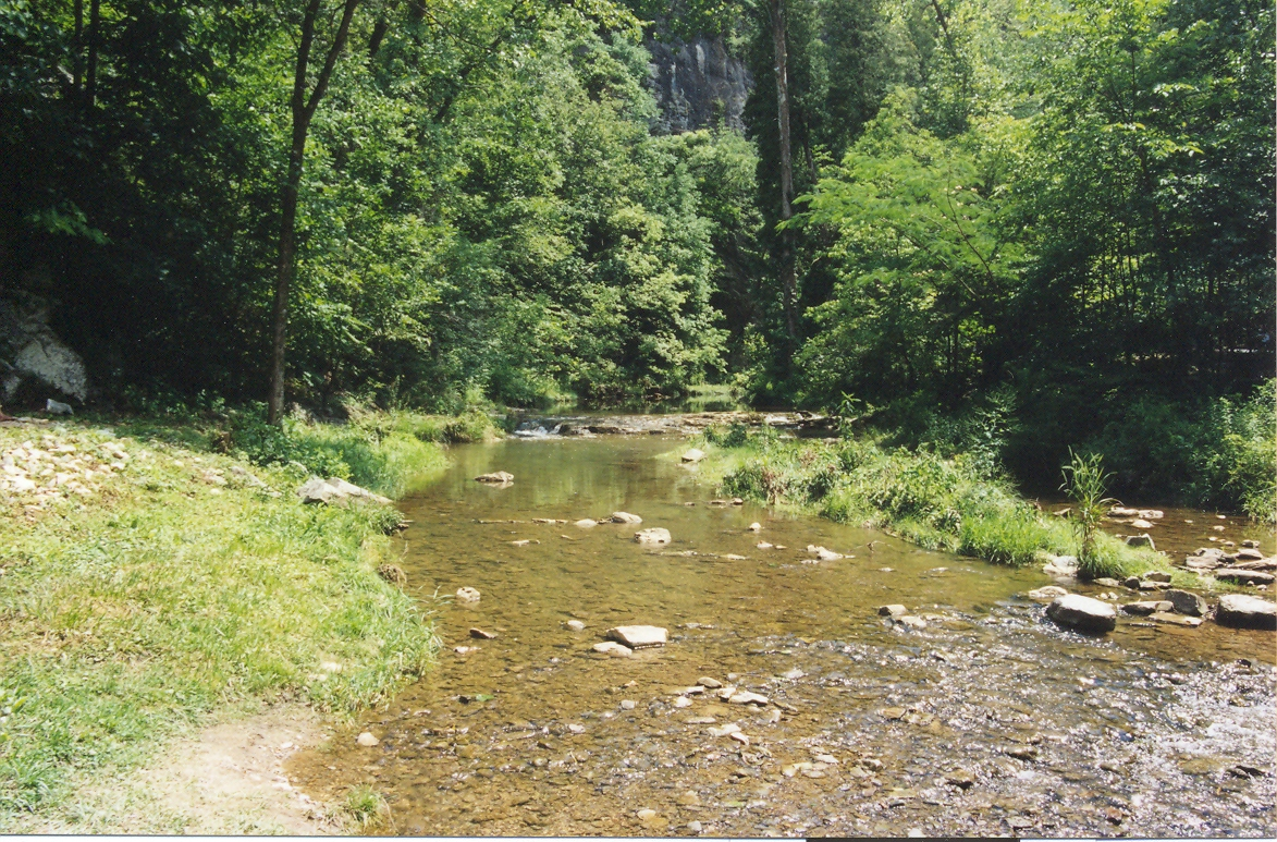 Cedar Creek, Virginia. A Tributary of James river.